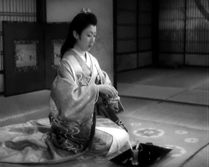 Screenshot from The Life of Oharu, 1952 film. Hisako Yamane as Lady Matsudaira.